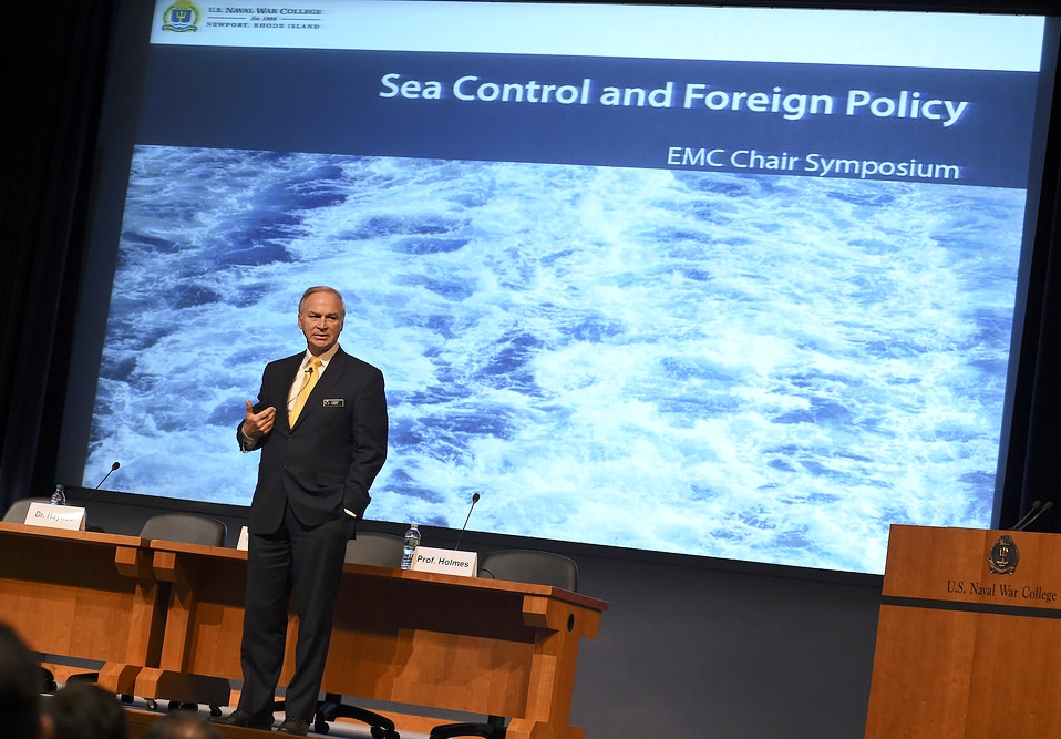 Randy Forbes, senior distinguished fellow of U.S. Naval War College (NWC) Foundation and former representative, gives remarks to NWC students, staff, faculty and guests during his keynote address on sea power and national strategy during an EMC Chair Symposium on Maritime Security, “Sea Control and Foreign Policy,” held at NWC in Newport, Rhode Island. This fifth maritime-centric symposium builds on the 2016 release of Design for Maintaining Maritime Superiority. The symposium focused on the future directions of U.S. foreign policy and reflected on demands the country places on the Navy, Marine Corps and Coast Guard to advance and defend national interests.